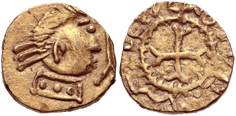 Gold Thrymsa, ca. 620-645 AD; found in the Crondall hoard of 1828